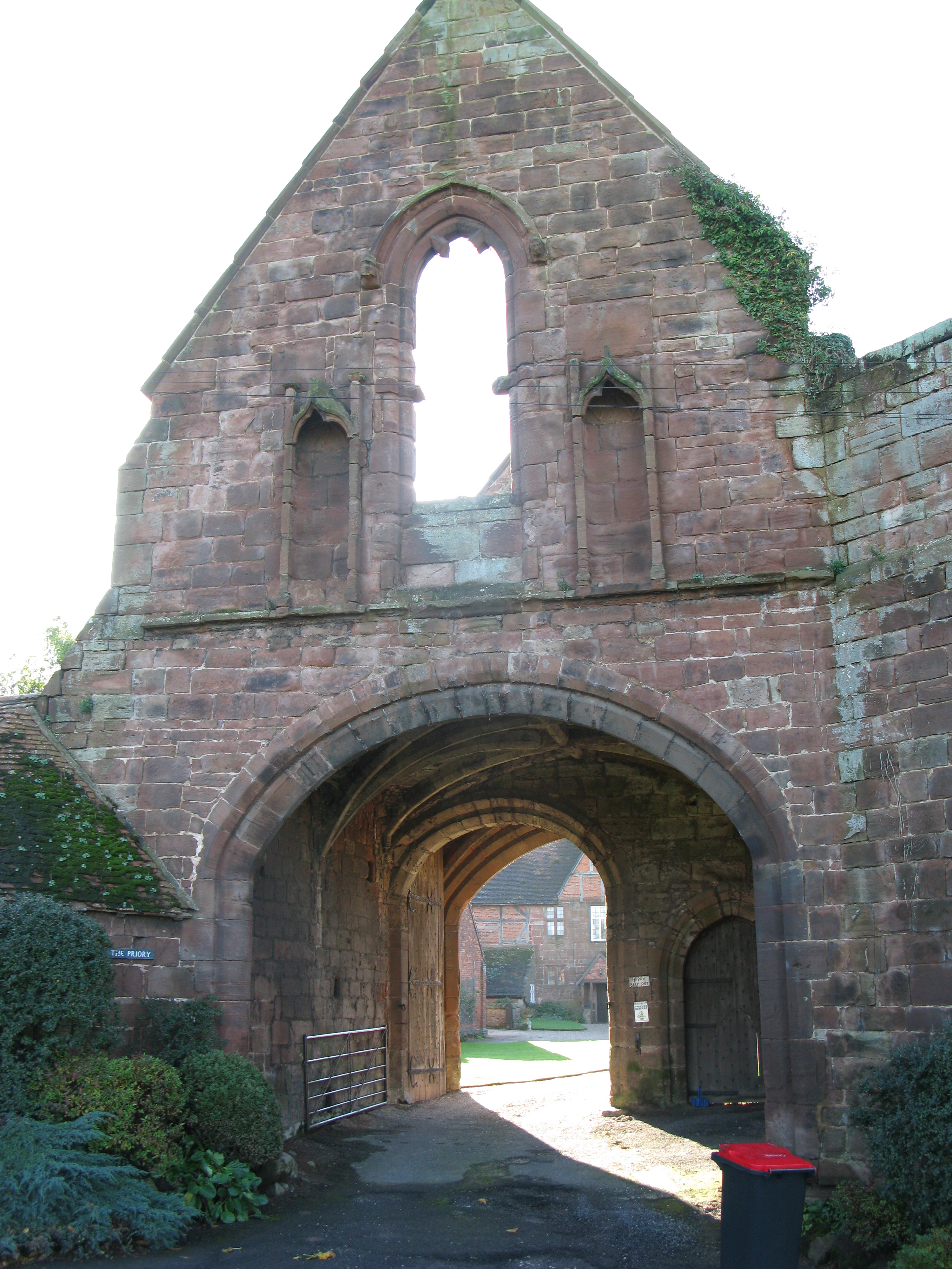 Grade II*